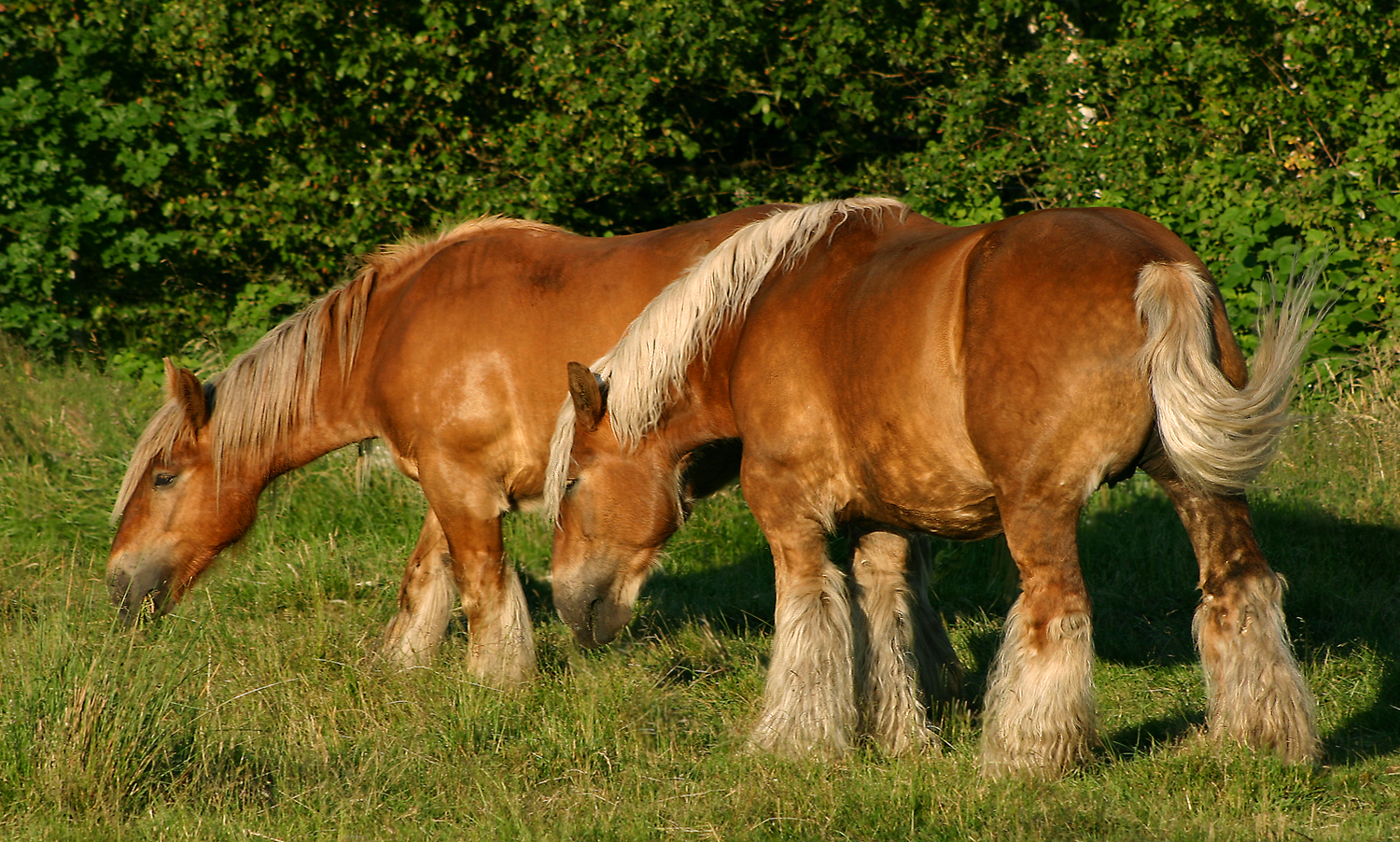 Jutlandic horses are a part of the restauration project at Vorup Enge near Randers, Denmark.